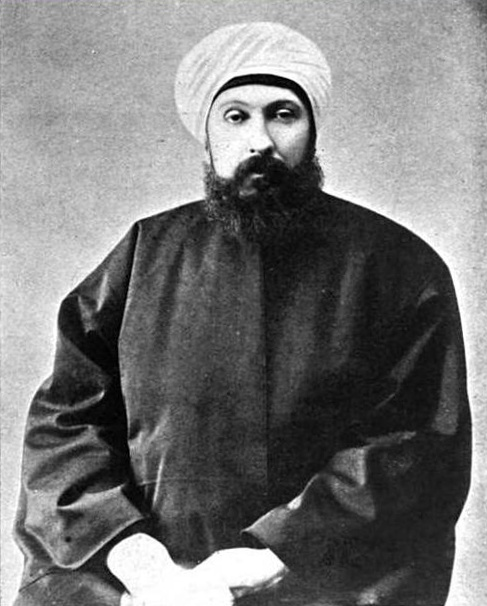 Djemaleddin Effendi (1848-1917), Ottoman Sheik-ul Islam and legal scholar